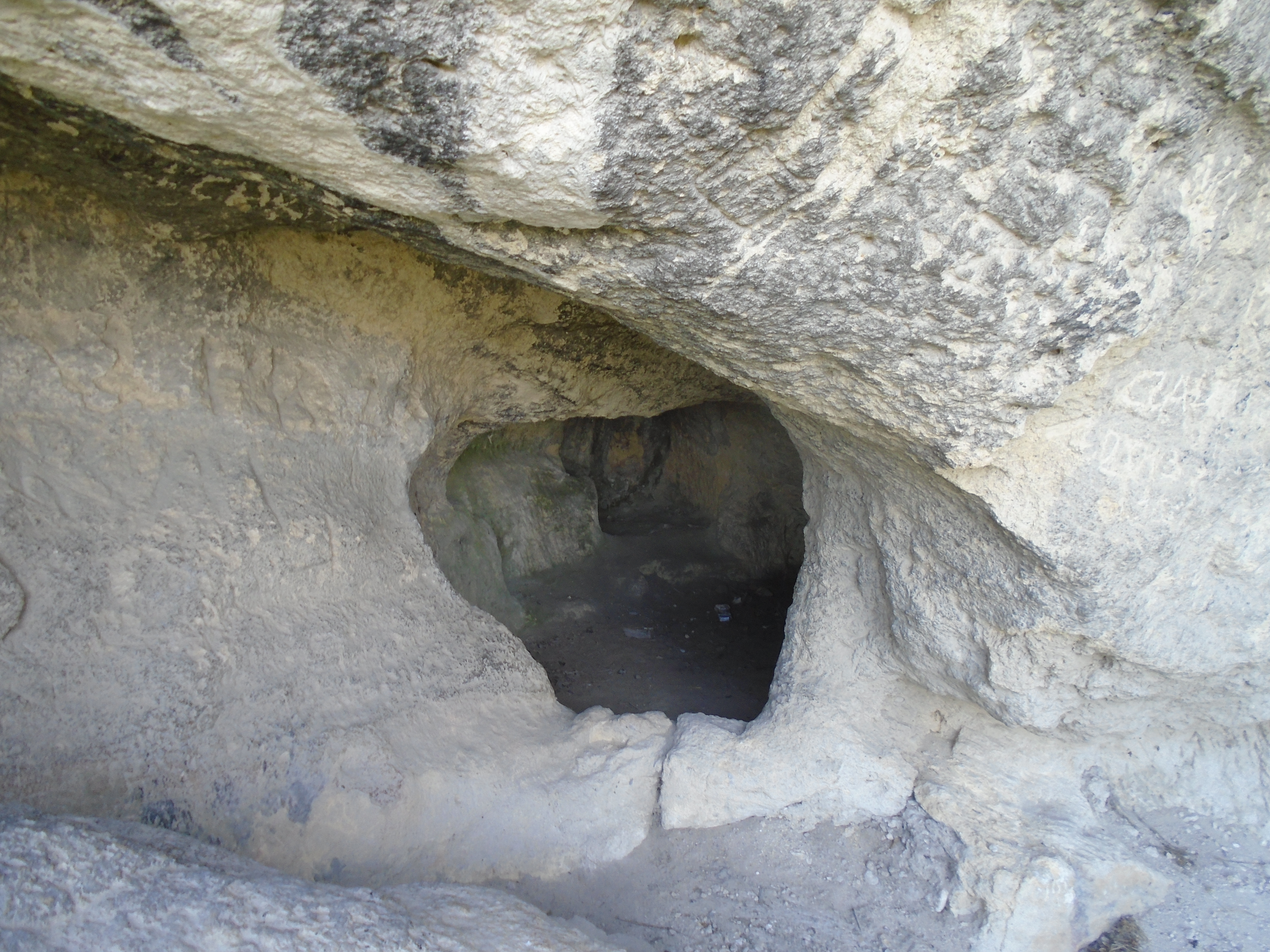 Entrance of Remény Passage of Zelezna Baba Cave.